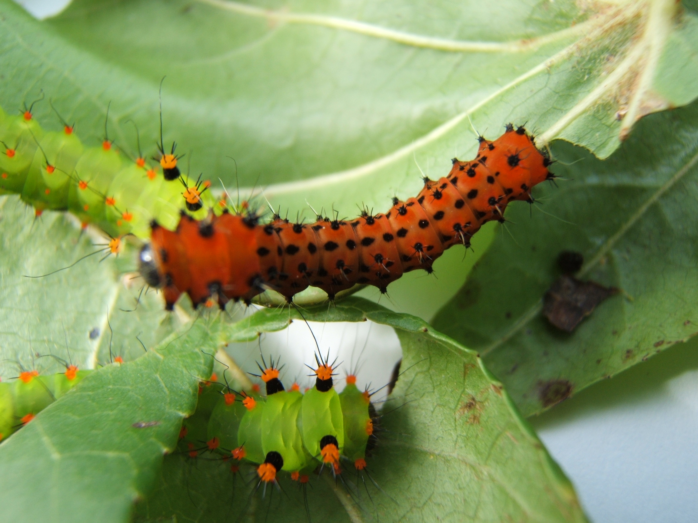 Actias selene 2nd instar reared on American Sweetgum. Some 3rd instar larvae are located in the background. Taken and raised by Shawn Hanrahan.